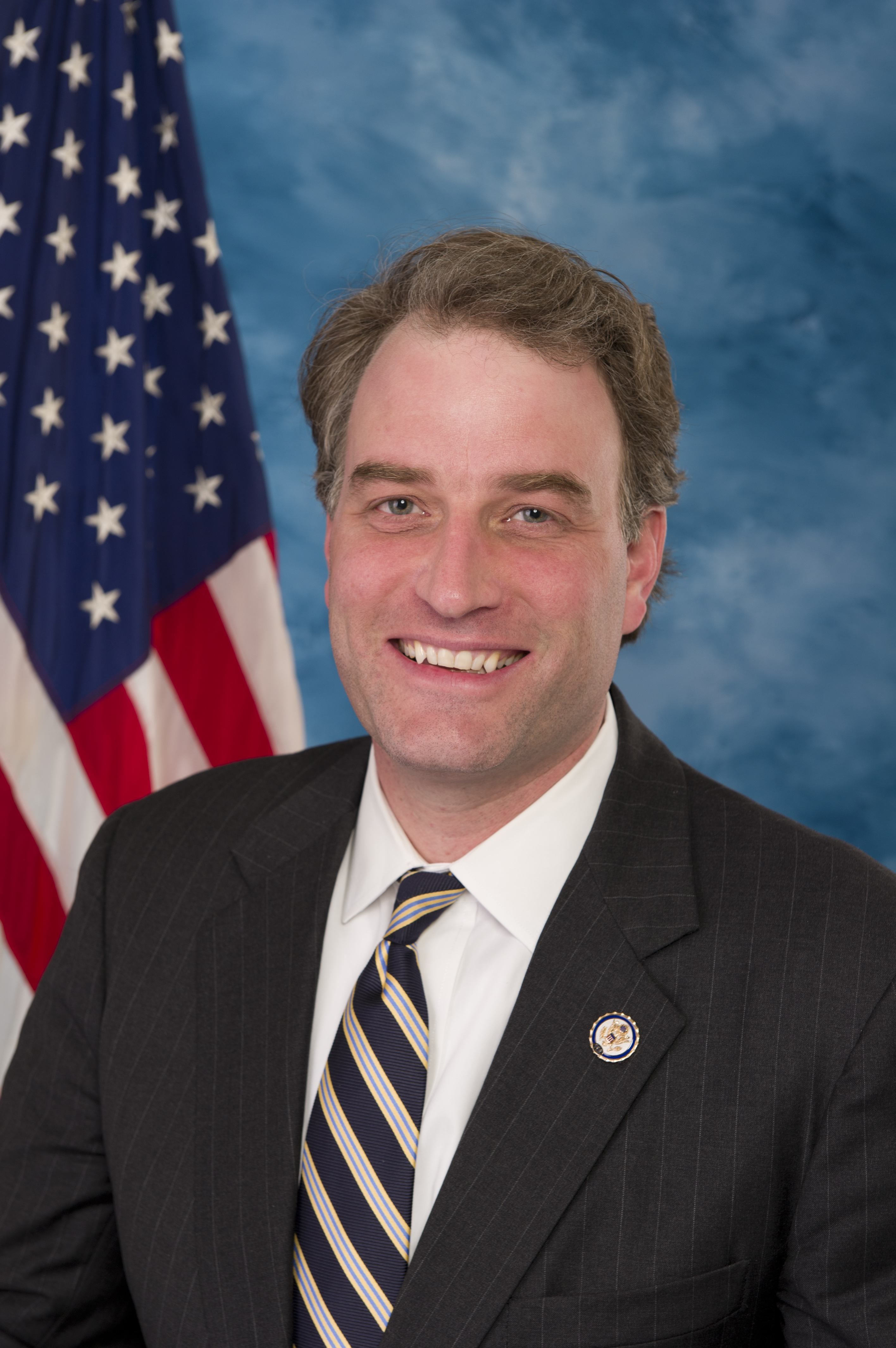 Official portrait of US Rep. Robert Hurt.